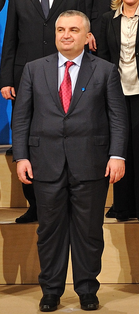 Ilir Meta